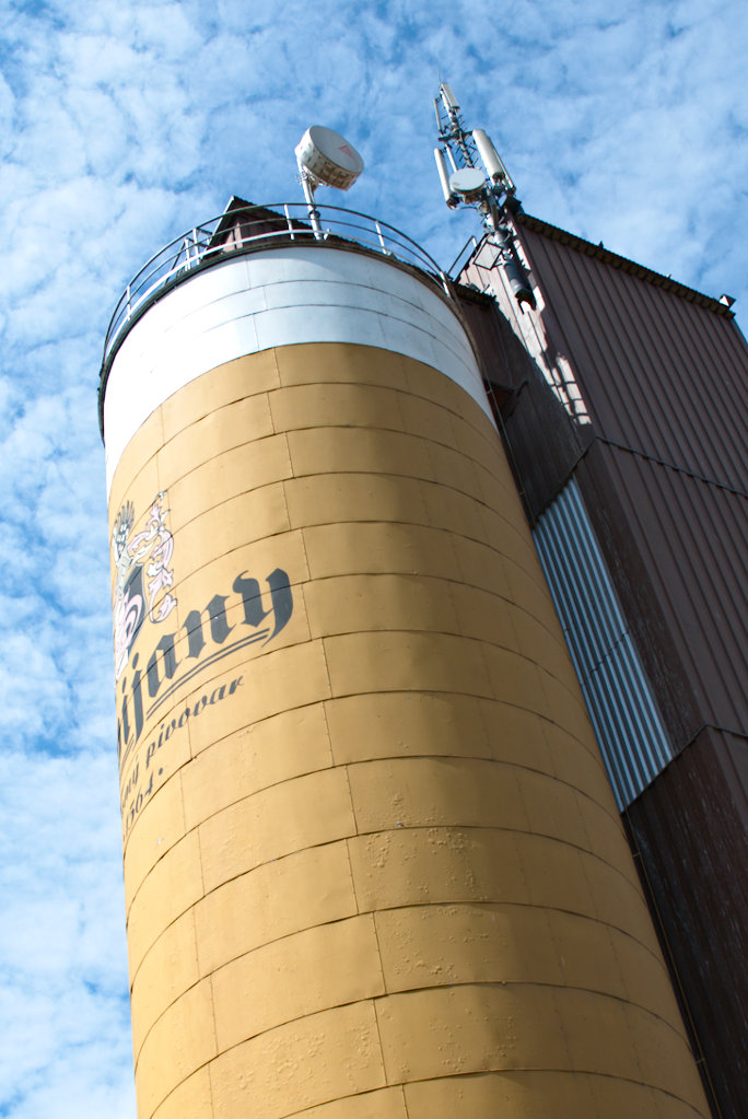 Photo of the Svijany brewery